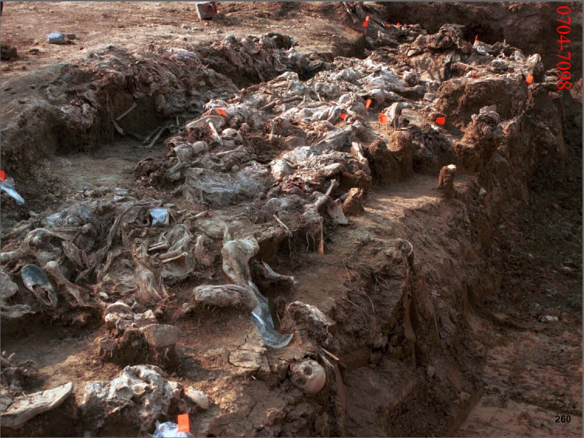 Photo Exhibit used in ICTY Srebrenica Cases: Exhumation site in Čančari valley